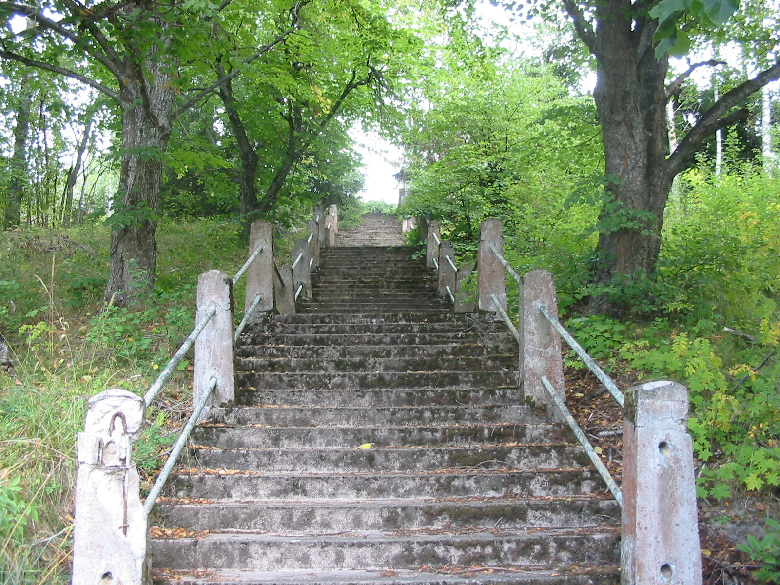 Old stairs by the Juntiolankoski hydroelectric power plant in Paimio, Finland Proper, Finland